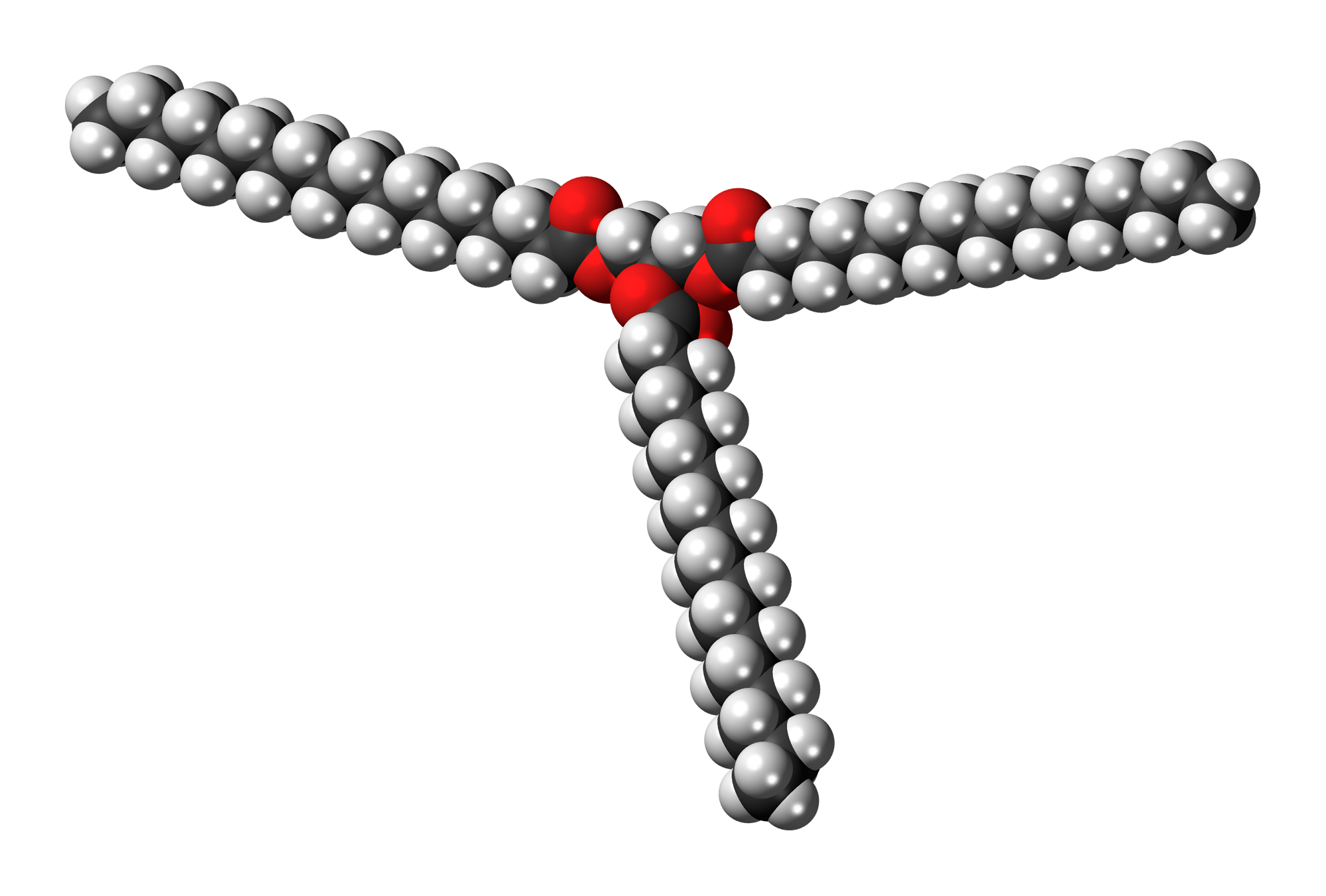 Space-filling model of the tristearin molecule, also known as stearin, the triglyceride of stearic acid. Colour code: Carbon, C: black Hydrogen, H: white Oxygen, O: red